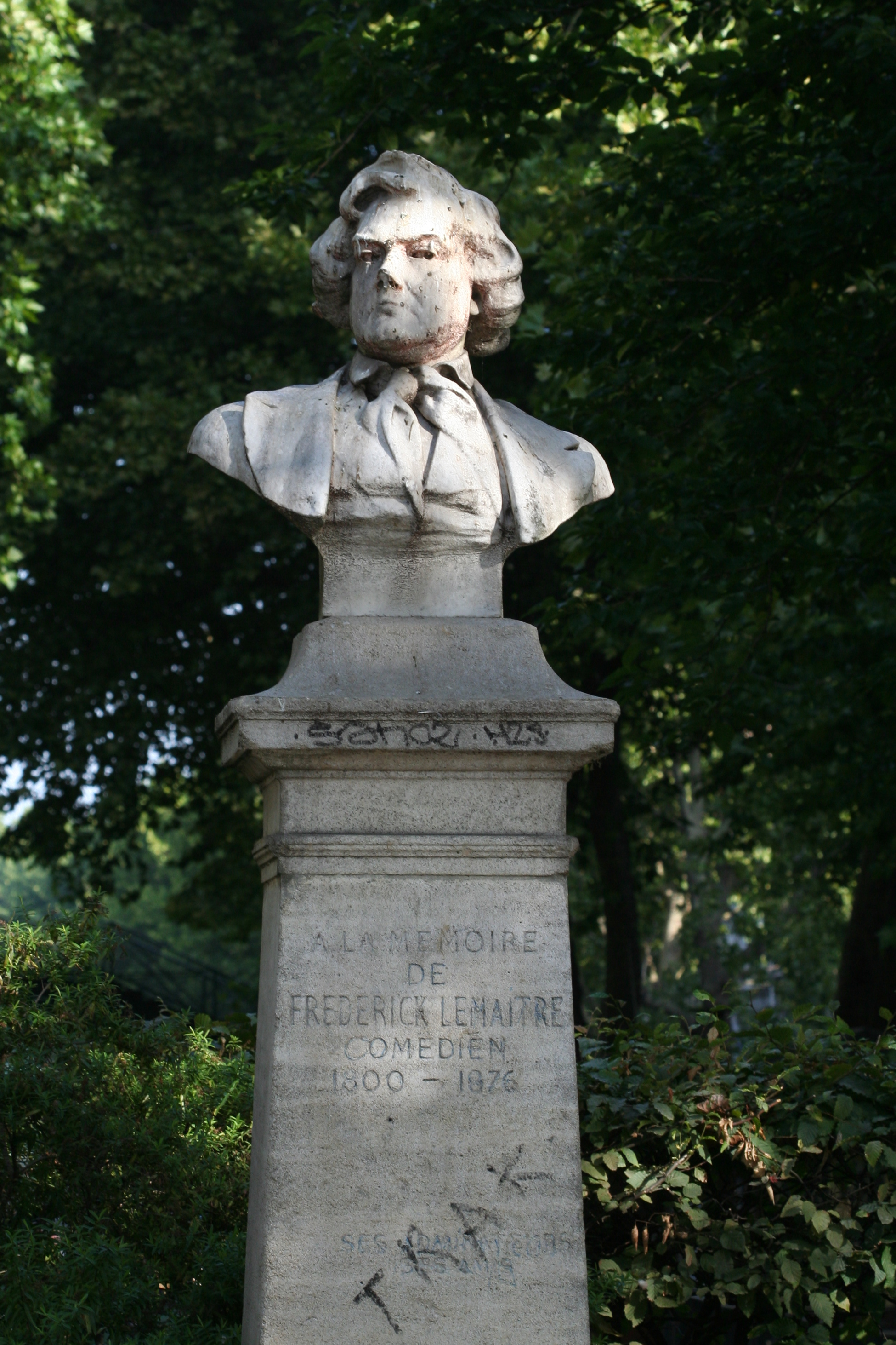 Bust of Frédérick Lemaître by Pierre Granet, 1898, square Frédérick-Lemaître (Paris 10th arrdt), seen from rue du Faubourg-du-Temple.